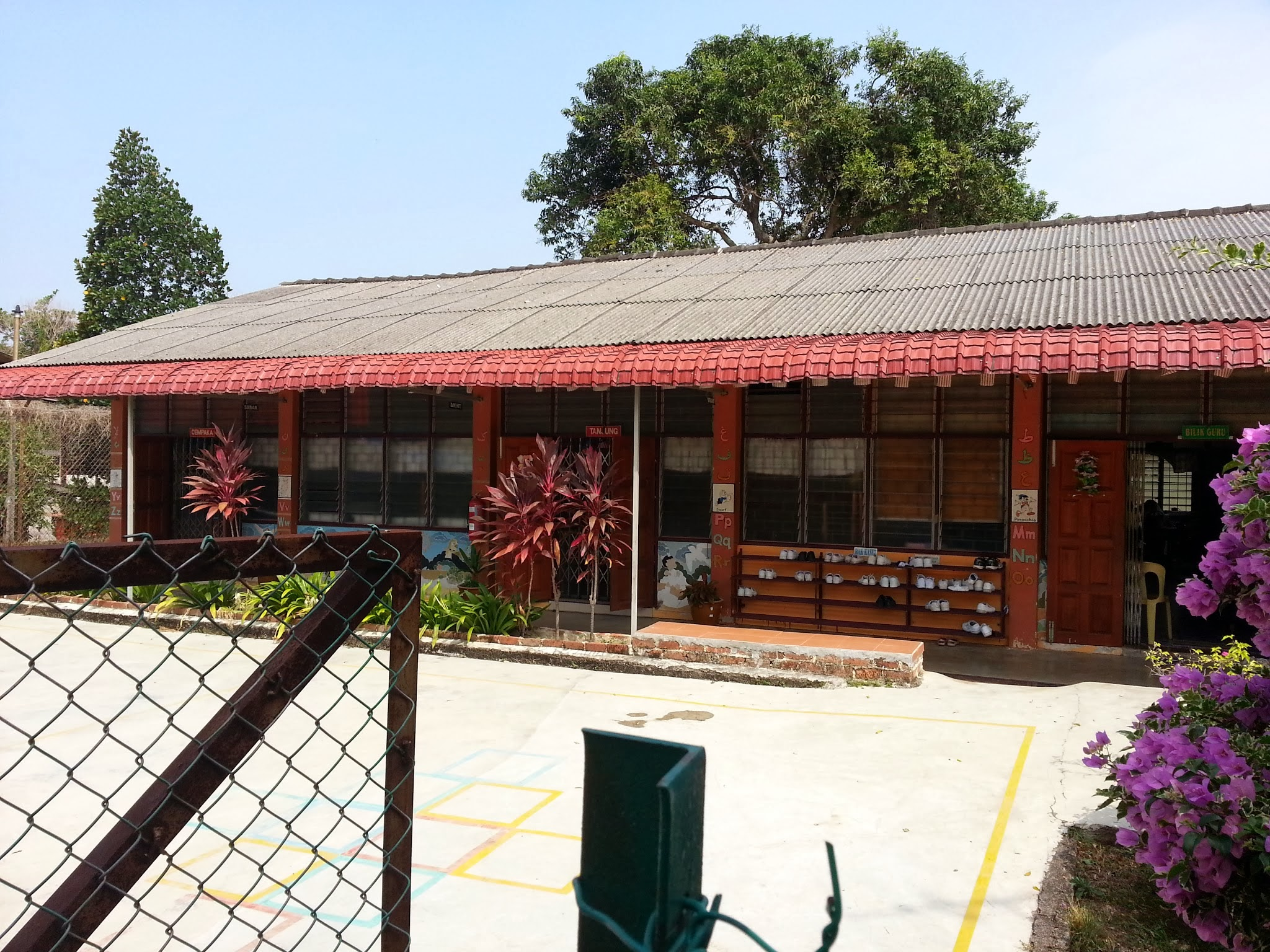 prasarana sksb